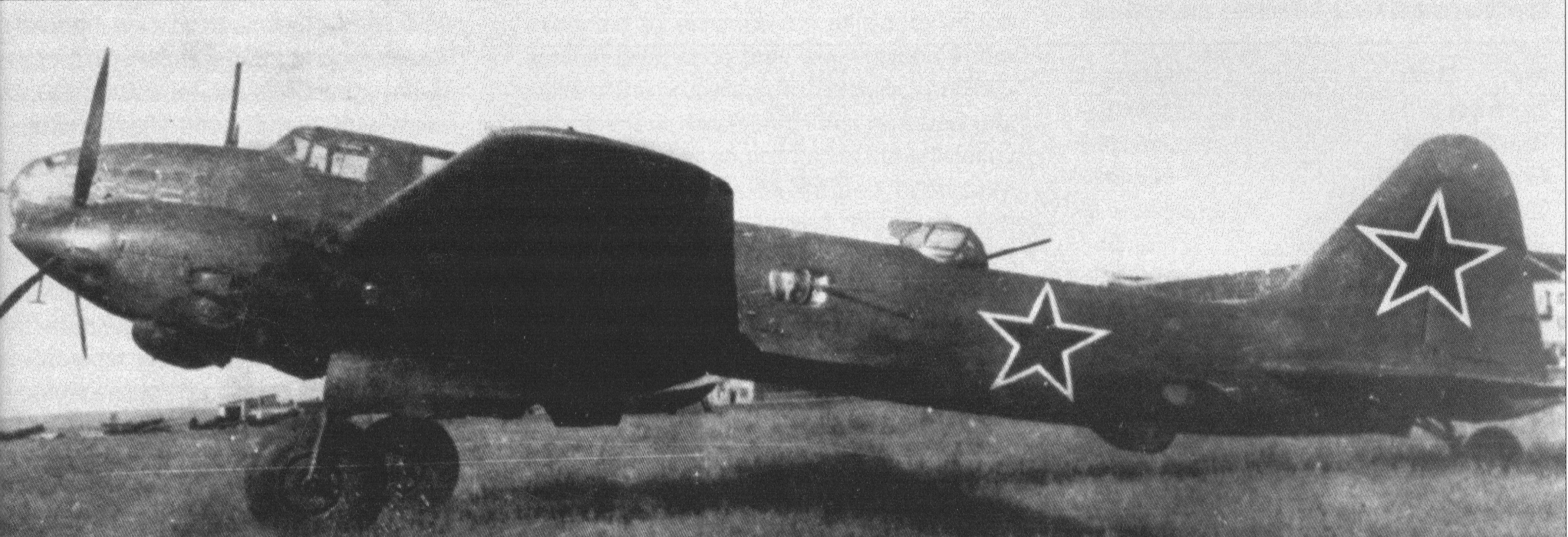 Ilyushin Il-6 with Charomsky ACh-30BF engines